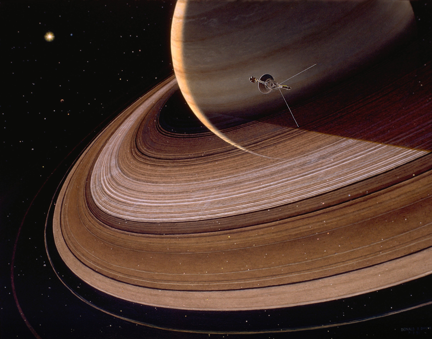 Artist's impression of the Voyager 2 space probe (1977—) on approach to Saturn. Artist's description: "Voyager 2 at the moment of its closest approach to Saturn. The ring divisions were drawn on the board with a rapidograph pen before the paint coats were applied! Earth is the blue 'star' to the right of the Sun, below the Sun is crescent lit Titan. Oil on illustration board for JPL."